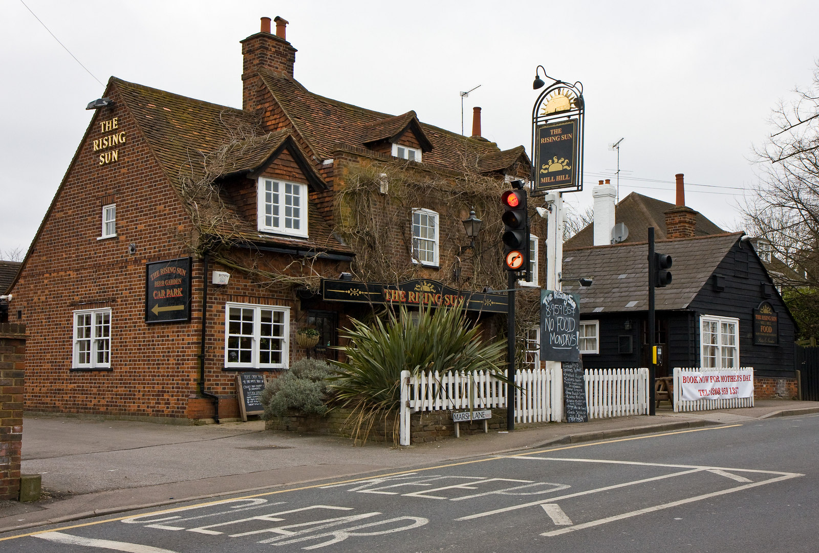 The Rising Sun A public house located at the junction of Highwood Hill and Marsh Lane.